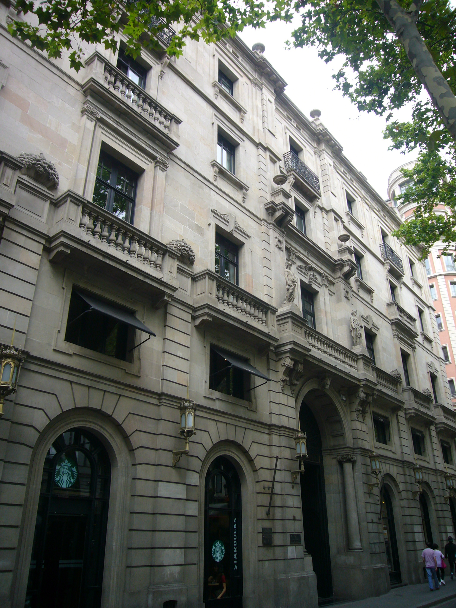 Hotel 1898. Cia. Tabacs de Filipines, la Rambla